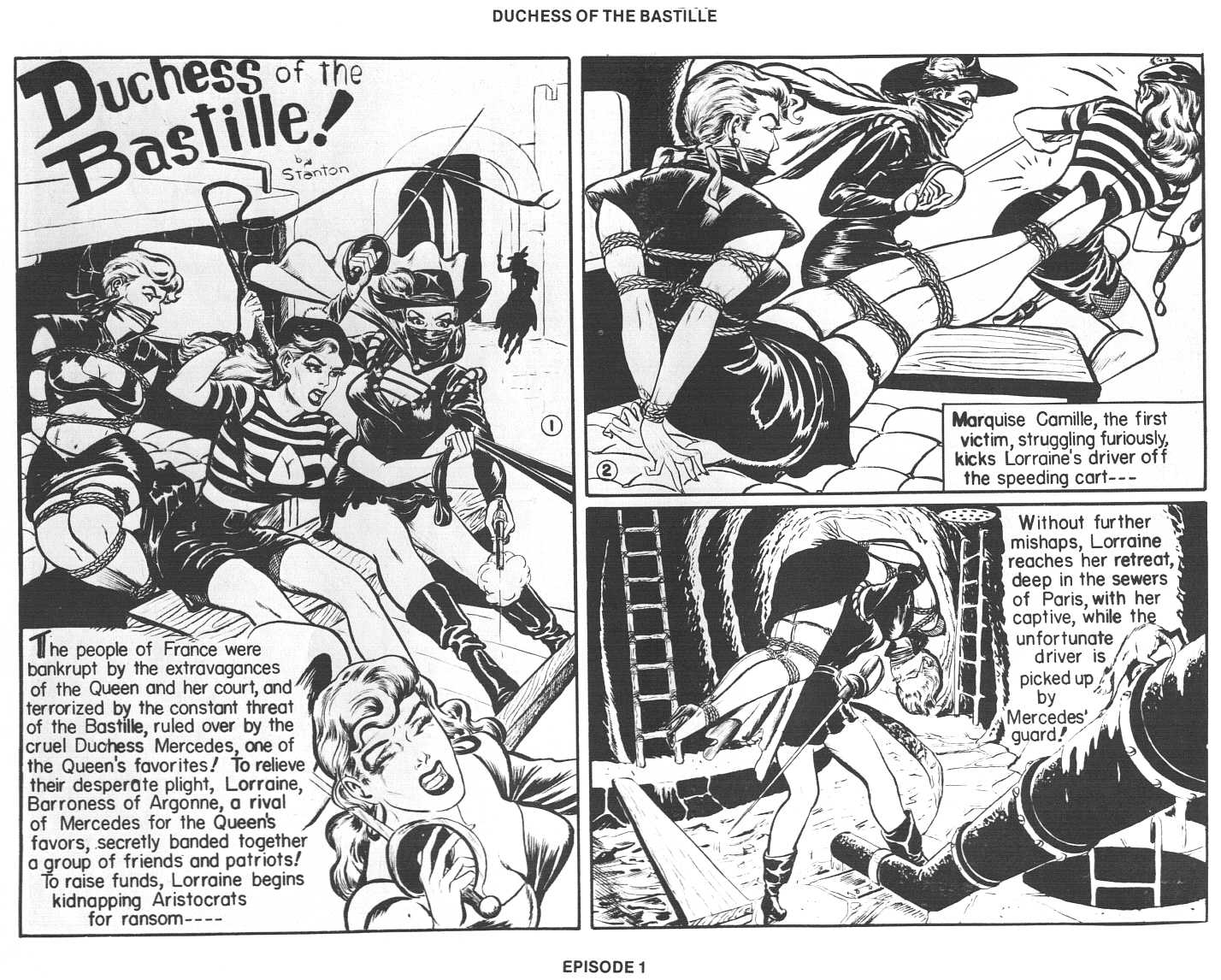 Duchess of the Bastille